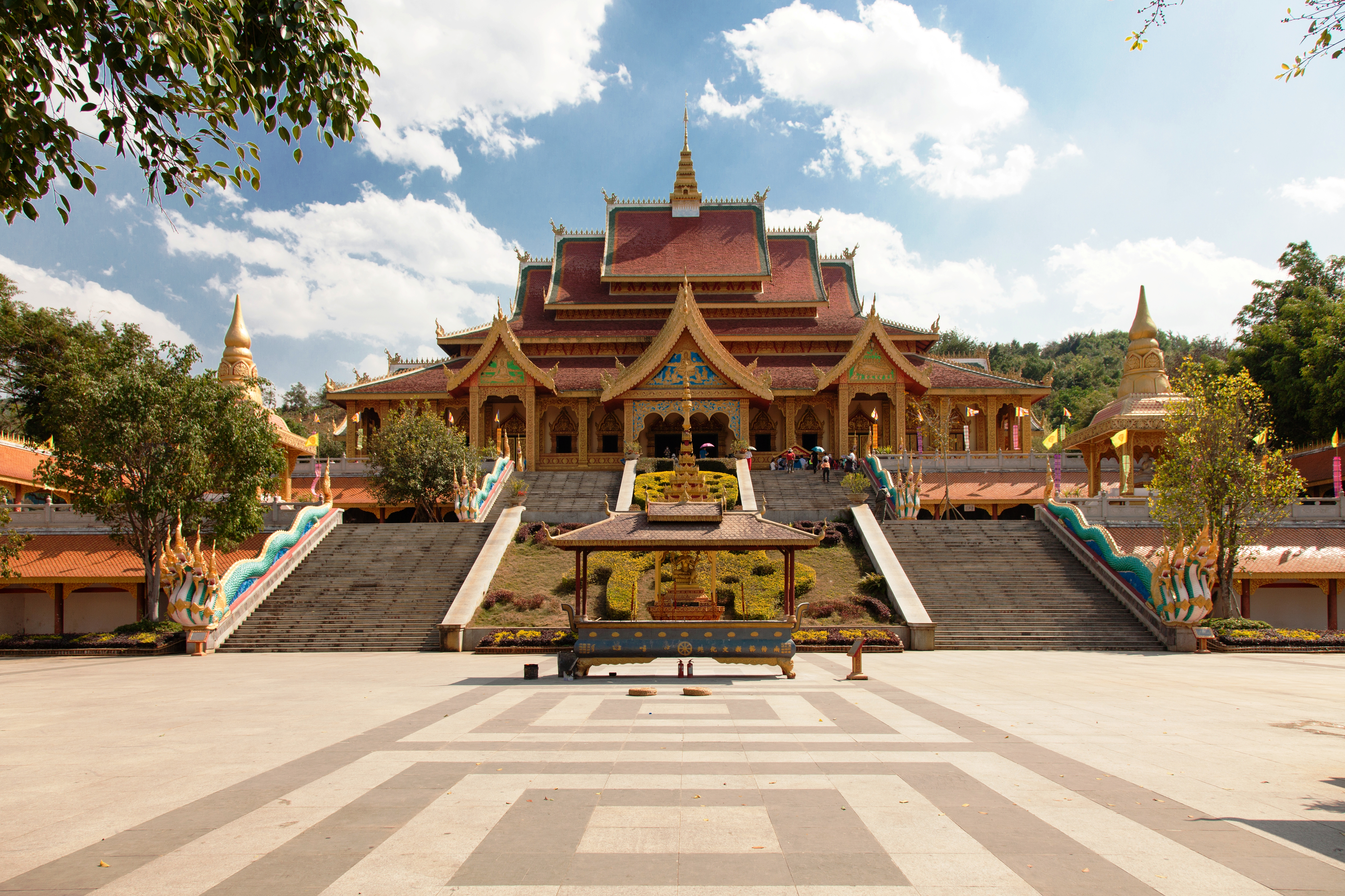 Maingate of the Temple, Jinghong, Xishuangbanna, Yunnan, China.